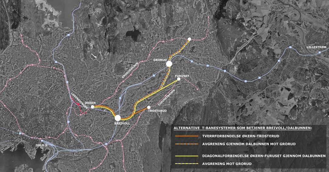 Possible extenstions of the subwaysystem in Groruddalen in Oslo.